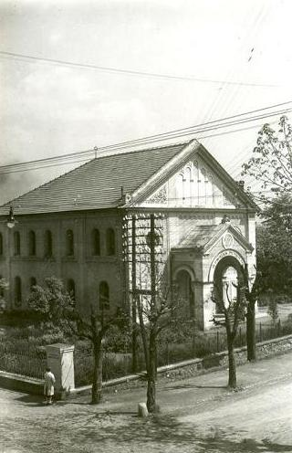 Synagogue in Skoczów